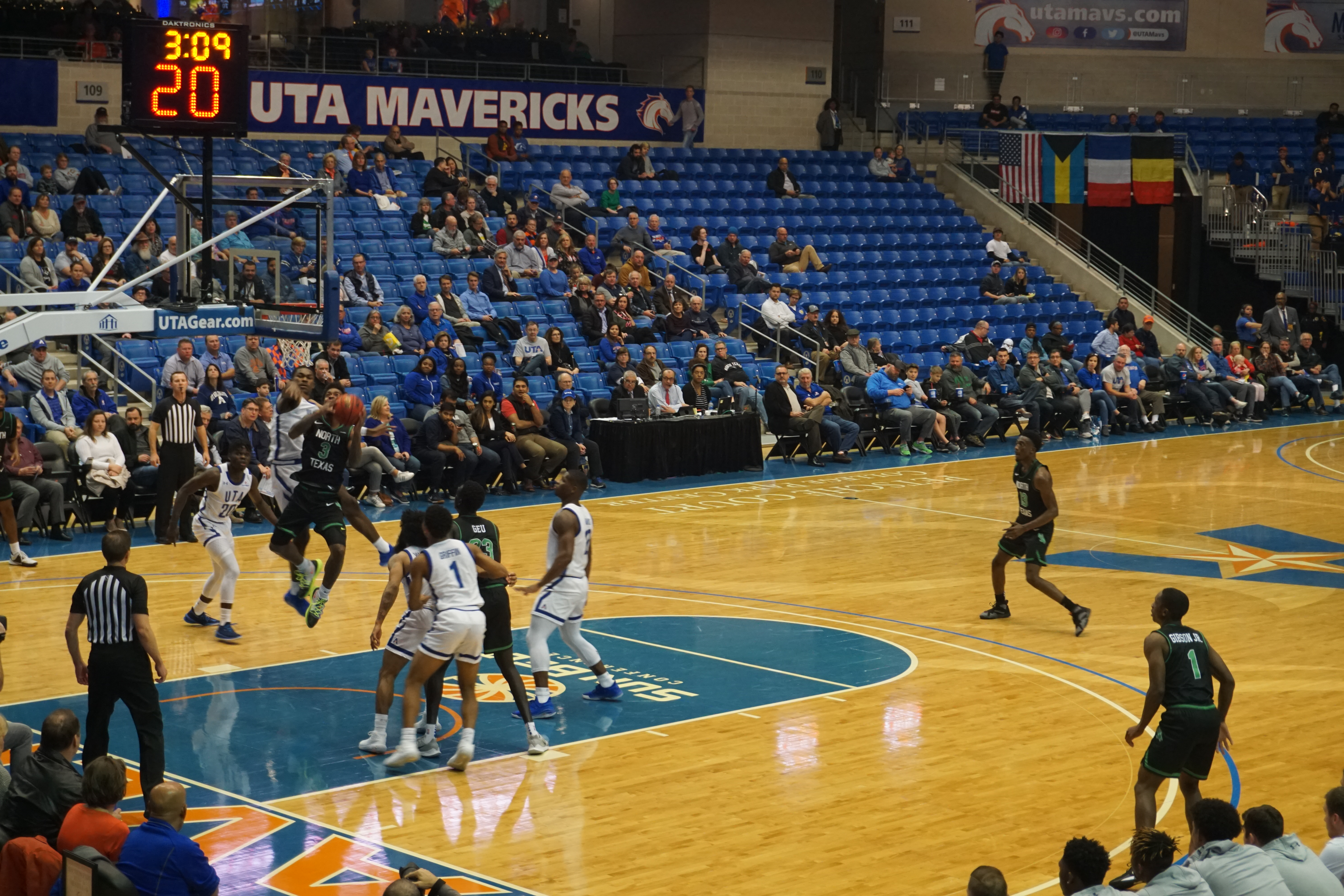 In-game action during the North Texas Mean Green vs. UT Arlington Mavericks men's basketball game at College Park Center in Arlington, Texas (United States). North Texas won 77–66.